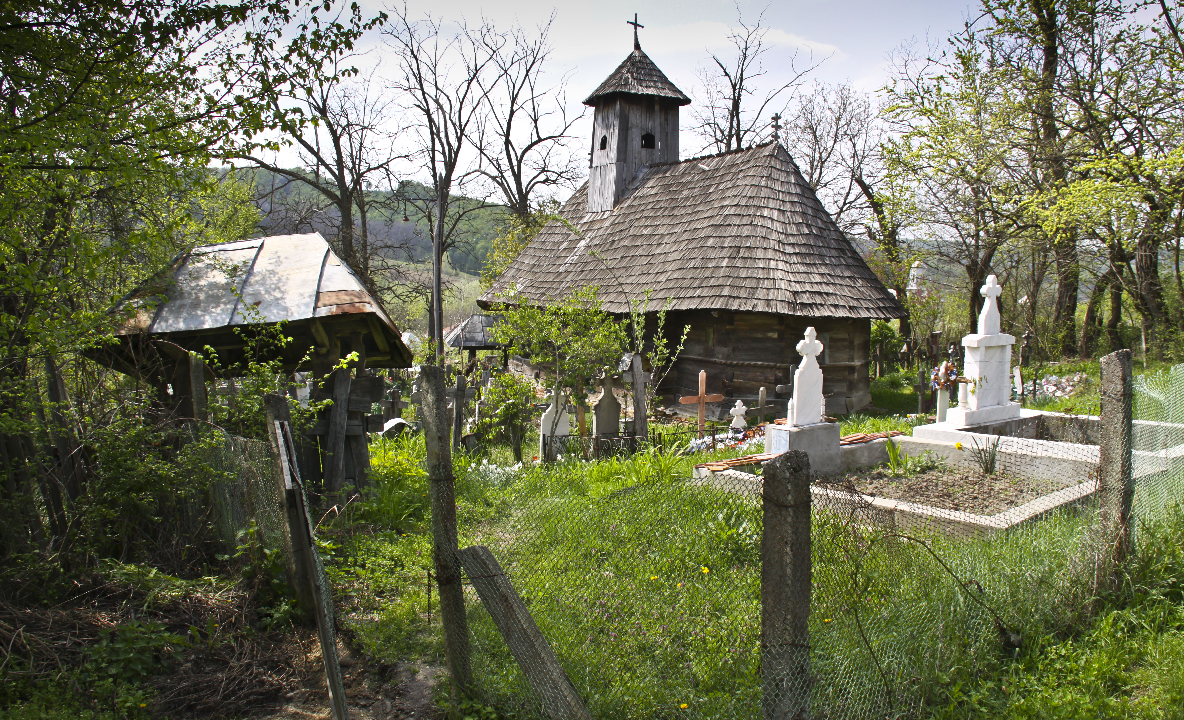 Olteanca-Chituci, Vâlcea county, Romania: the wooden church.